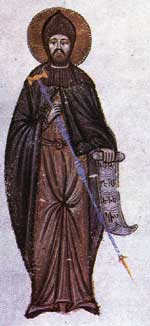 Mesrop Mashtots